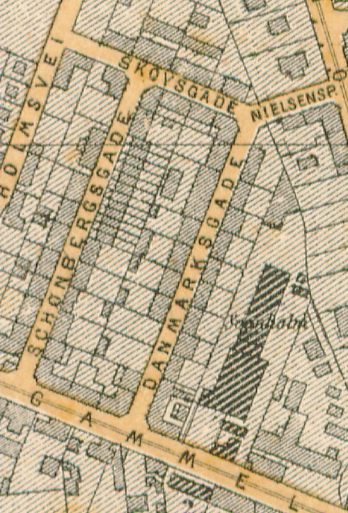 Map detail showing Schønbergsgade in Frederiksberg, Copenhagen, Denmark